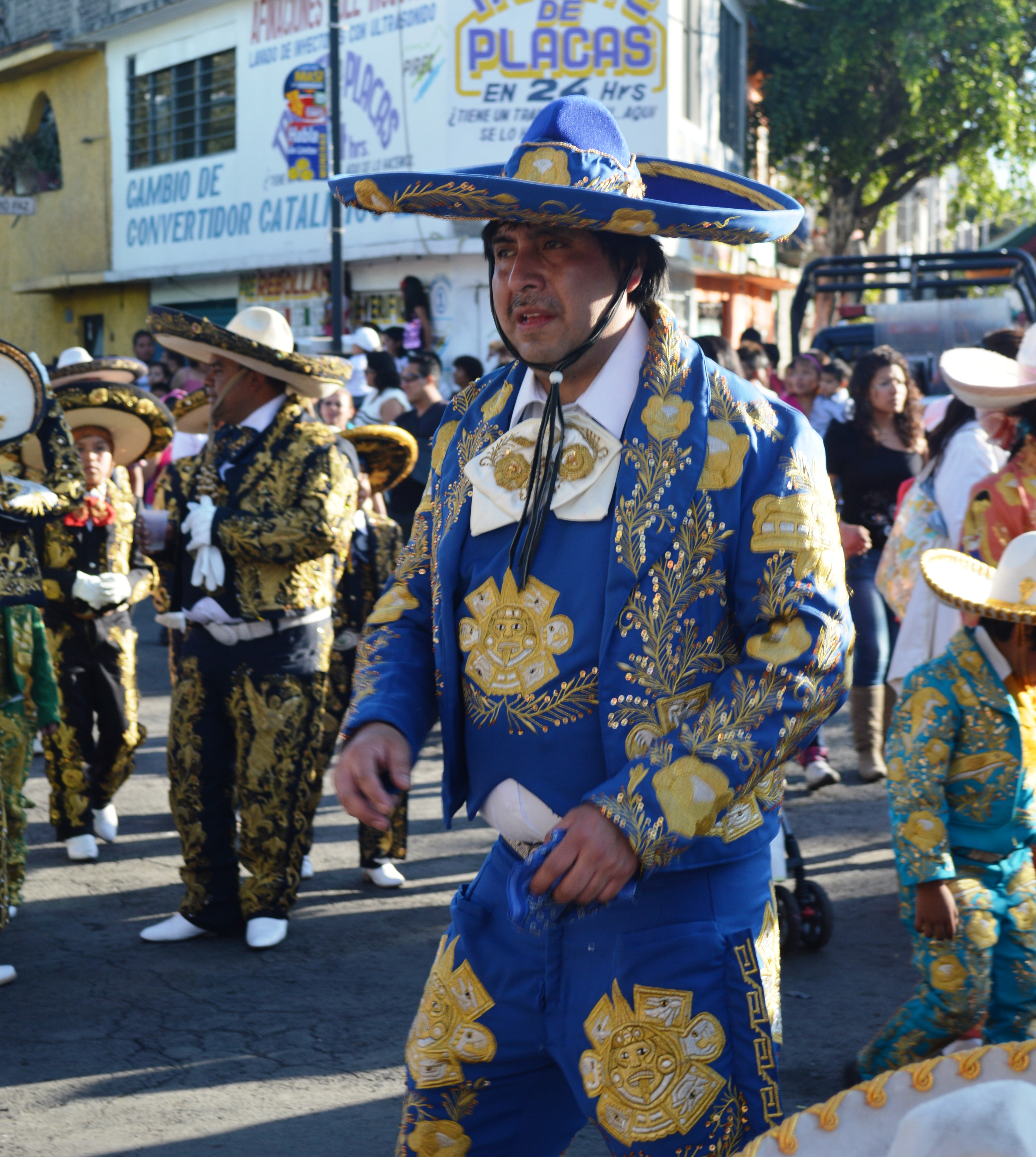 Comparsa (krewe) members at the Carnival of Santa Maria Acatitla, Iztapalapa, Mexico City